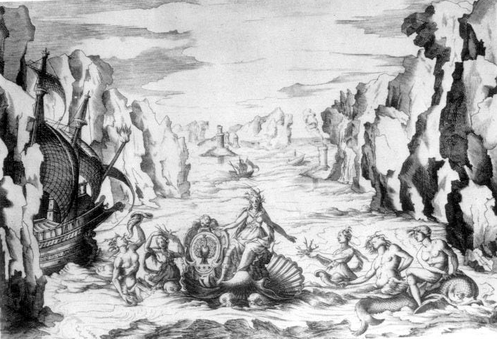 La pellegrina 1589 - Intermedio 5 - Il canto d’Arione - Aphrodite.jpg